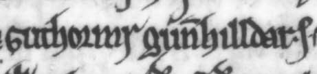 The name of Guthormr Gunnhildarson as it appears on folio 18r of AM 47 fol (Eirspennill): "Guthormr Gunnhilldarson".